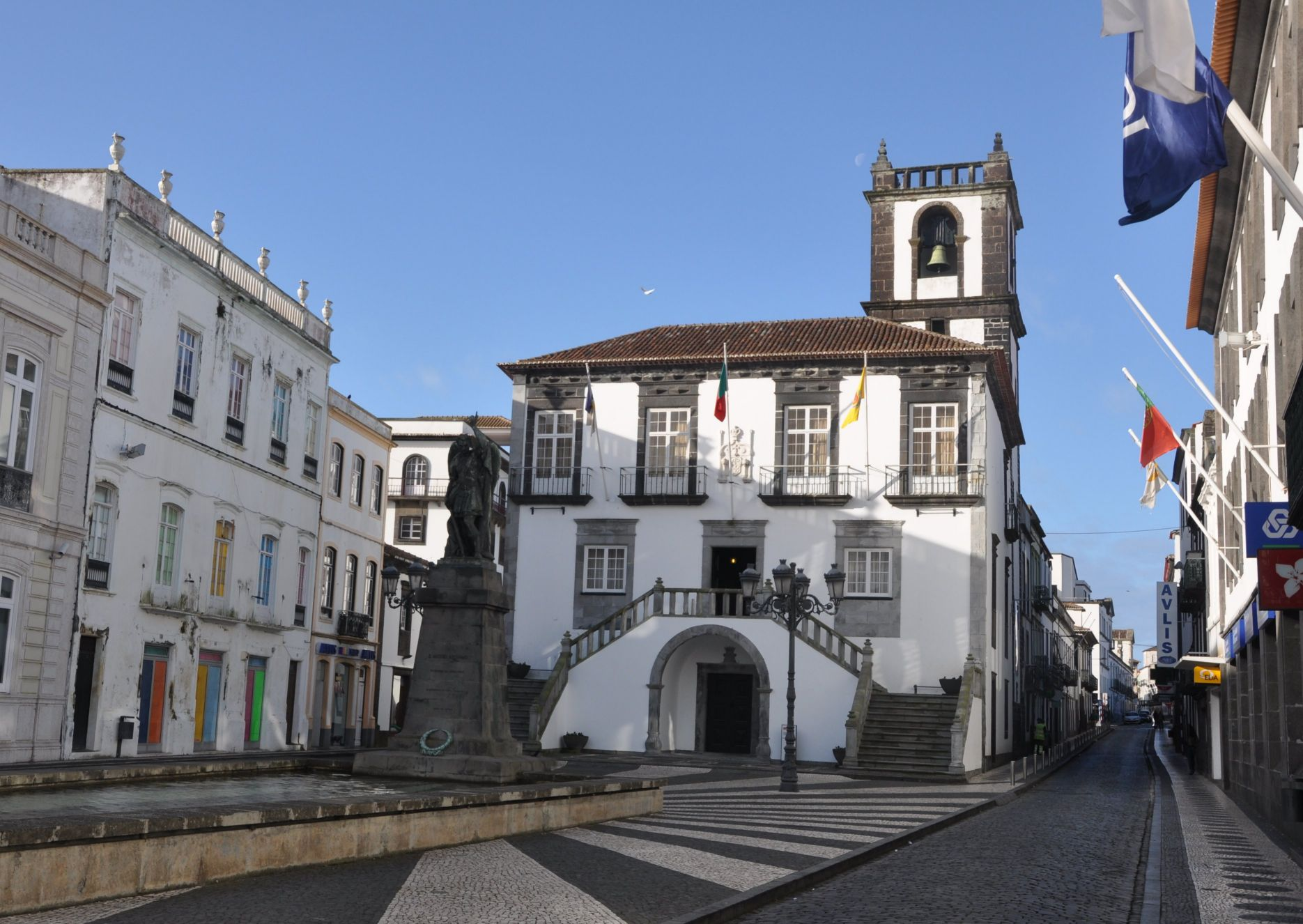 The Town Hall